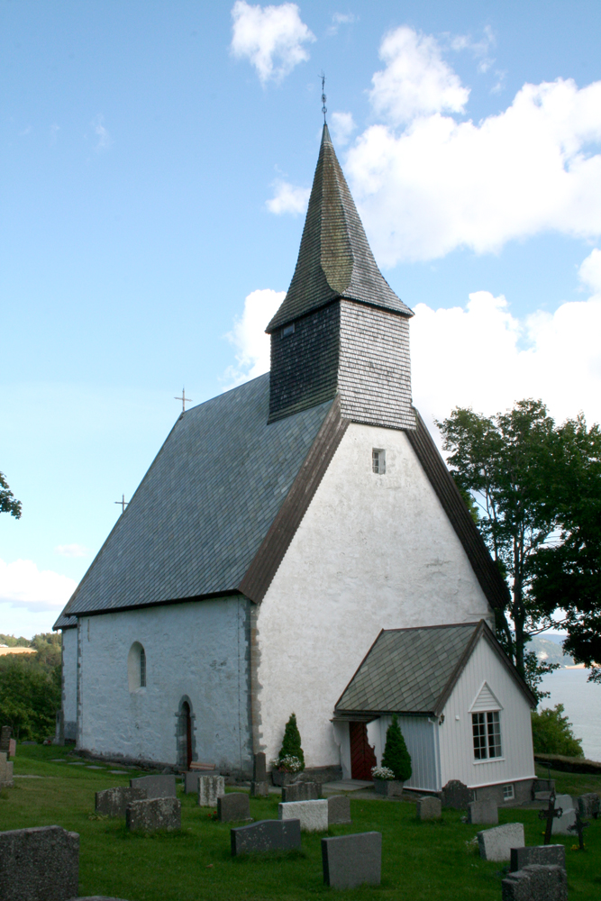 Byneset church near Trondheim, Norway - built in the 1180s.